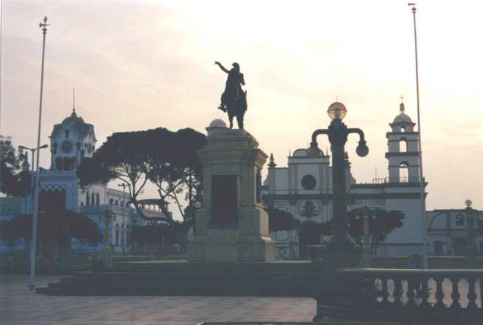 Plaza de Armas of Pisco/Peru with main church